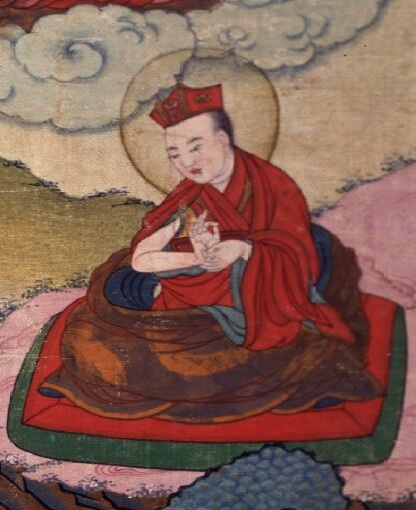 Drakpa Senge -1st Shamarpa b.1283 - d.1349